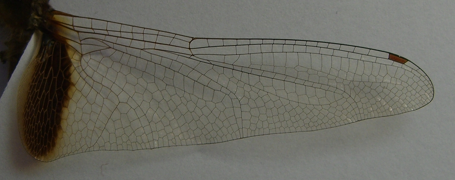 Description: Detail of the hindwing of Tramea calverti, (male)